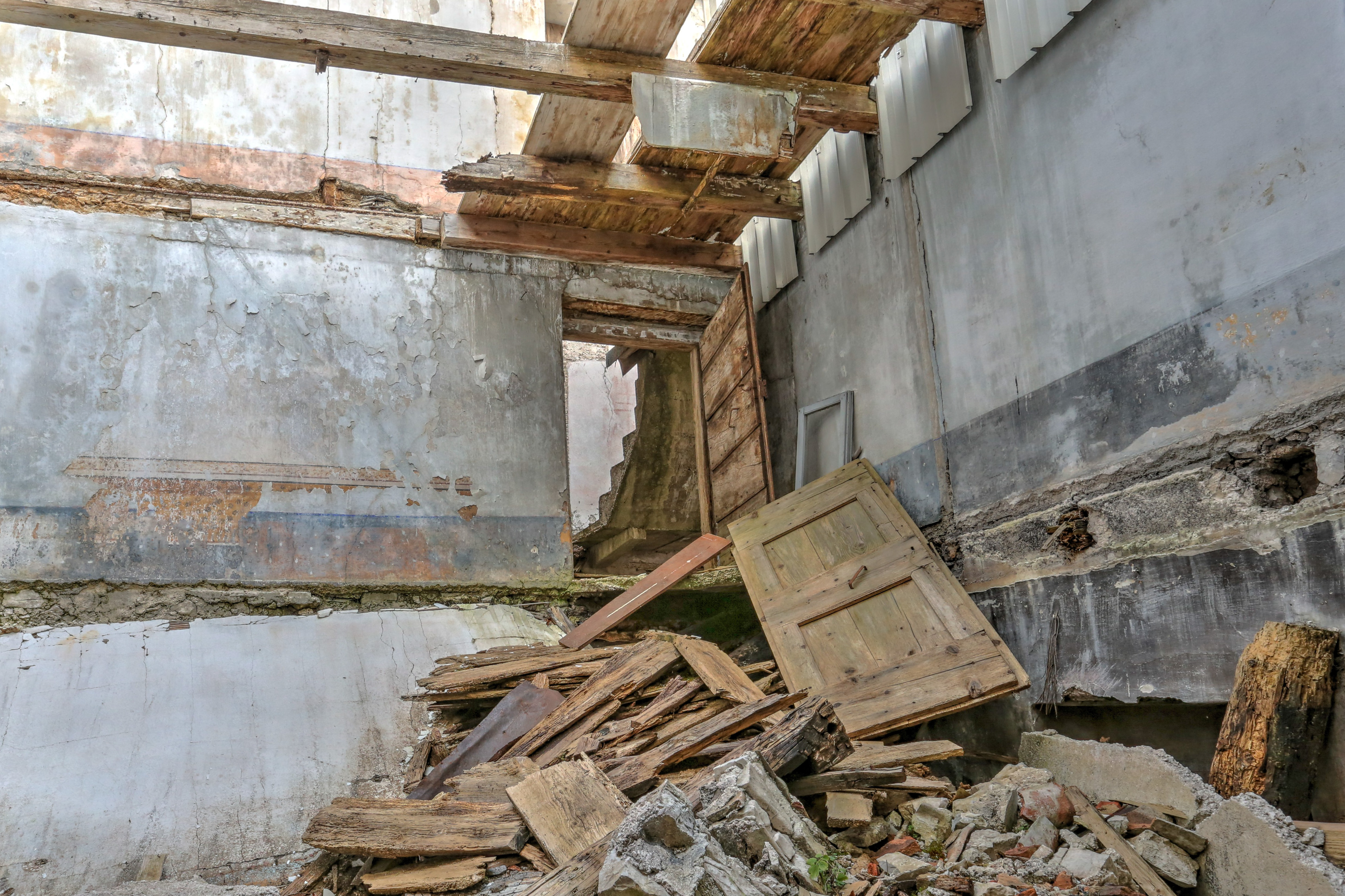 Interior of an abandoned house in Virgulins above Dordolla in the Val d'Aupa in the Carnic Alps, community Moggio Udinese / Friuli-Venezia Giulia / Italy / EU.